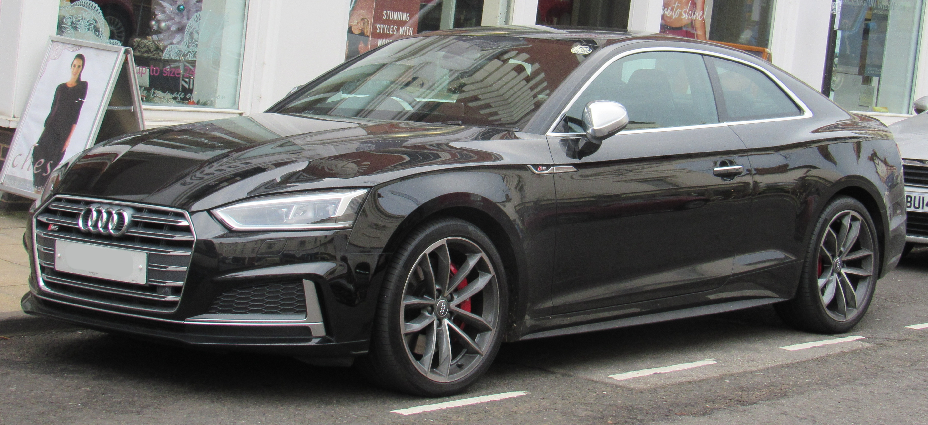 2016 Audi S5 TFSi Quattro Automatic 3.0 Front Taken in Leamington Spa